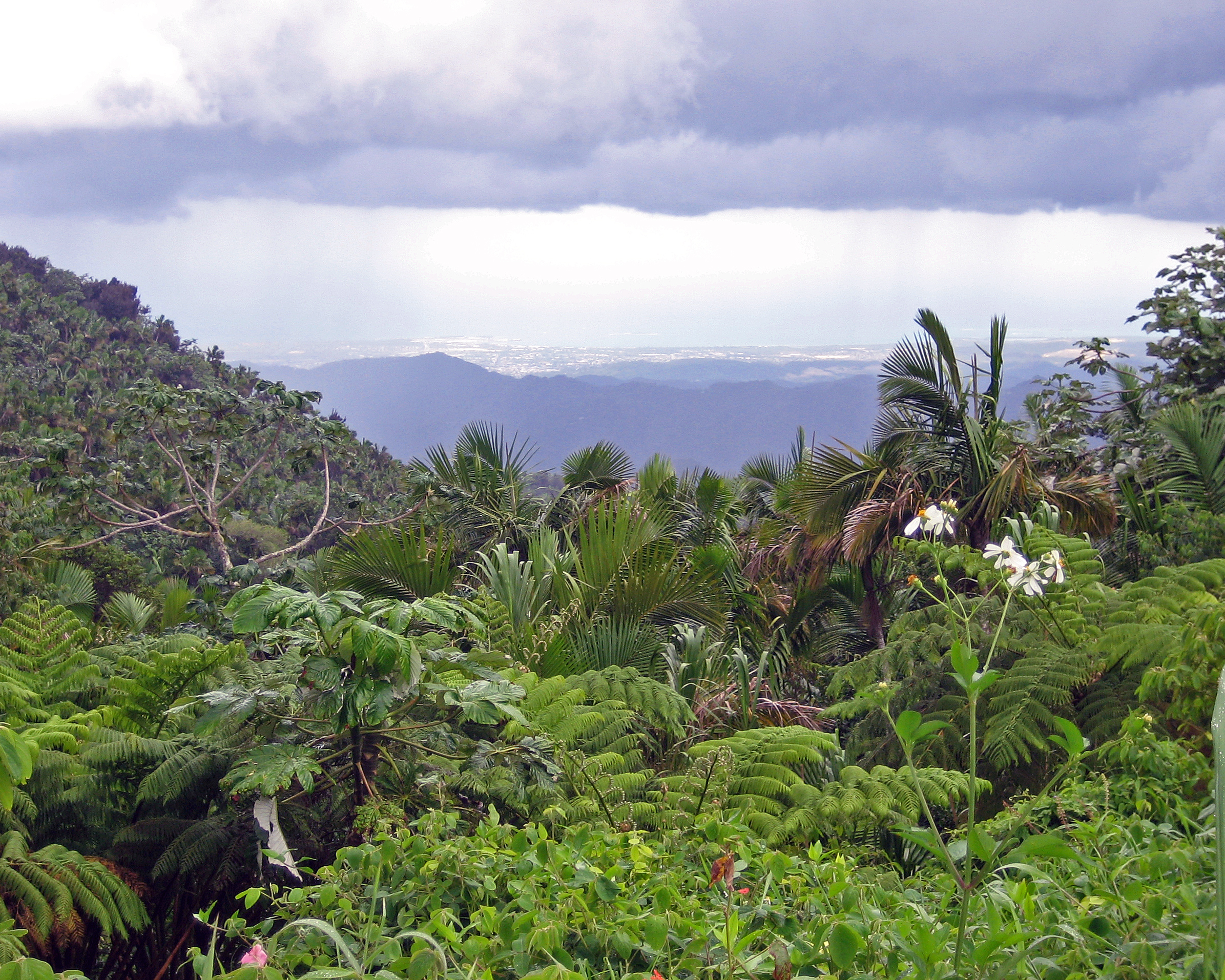 City of Ponce, Puerto Rico - viewed from the mountains of Jayuya